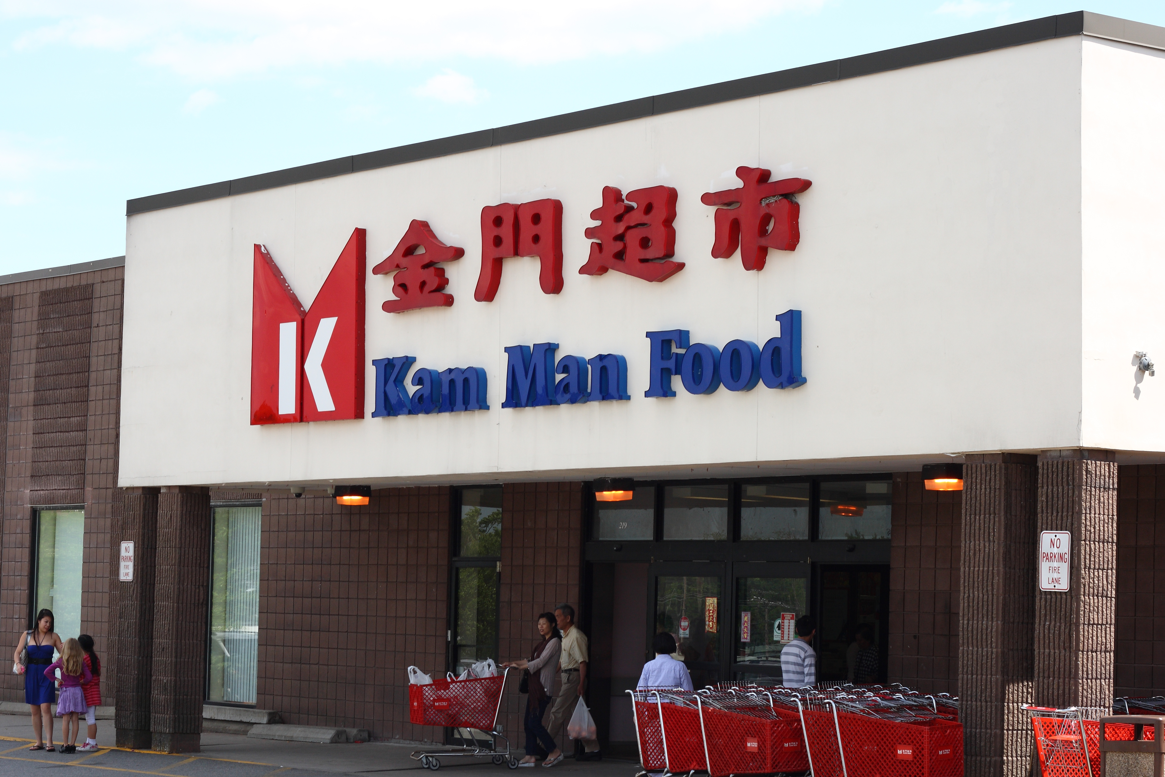 Kam Man Food Quincy Branch - President Plaza, 219 Quincy Ave, Quincy, MA 02169